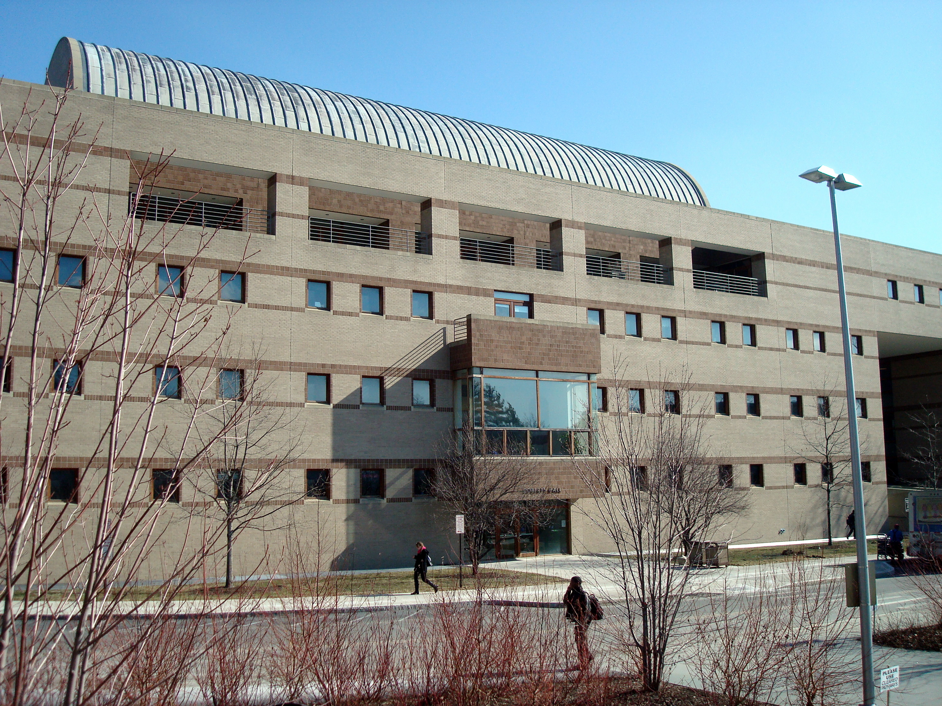 Roberts Hall at Cornell University.